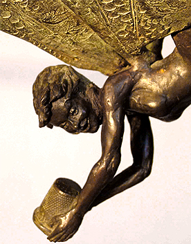 Tinkerbell by Diarmuid Byron O'Connor commissioned by Great Ormond Street Hospital London 2005